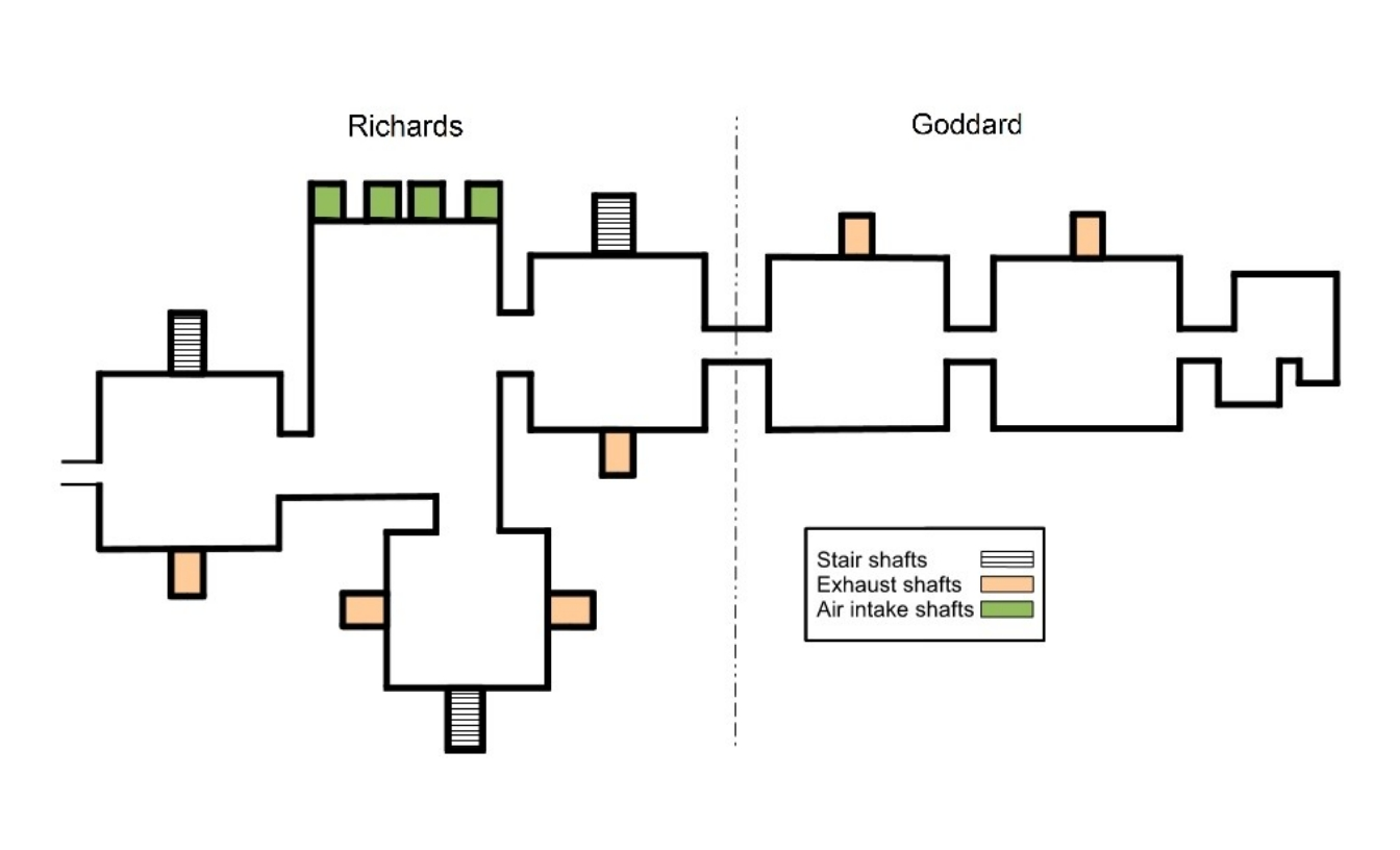 Outline of aerial view of the combined Richards Medical Research Laboratories and Goddard Research Laboratories buildings at the University of Pennsylvania in Philadelphia, Pennsylvania. Both were designed by Louis Kahn.